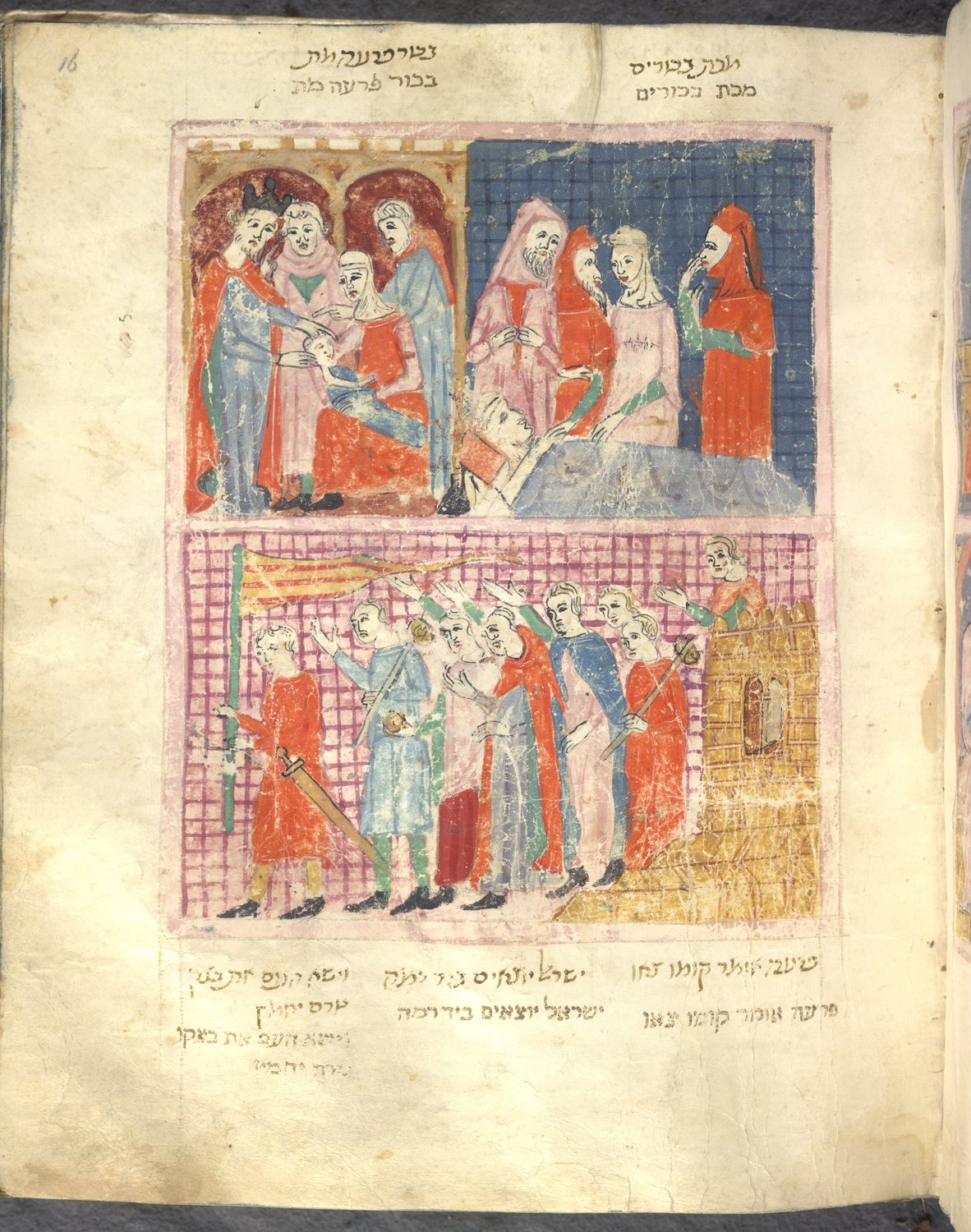 Scenes from Exodus. Full-page miniature, upper register: the tenth plague: the death of the first-born including Pharaoh's son, lower regsiter: the Israelites leaving Egypt. From the Haggadah for Passover (the 'Sister Haggadah').